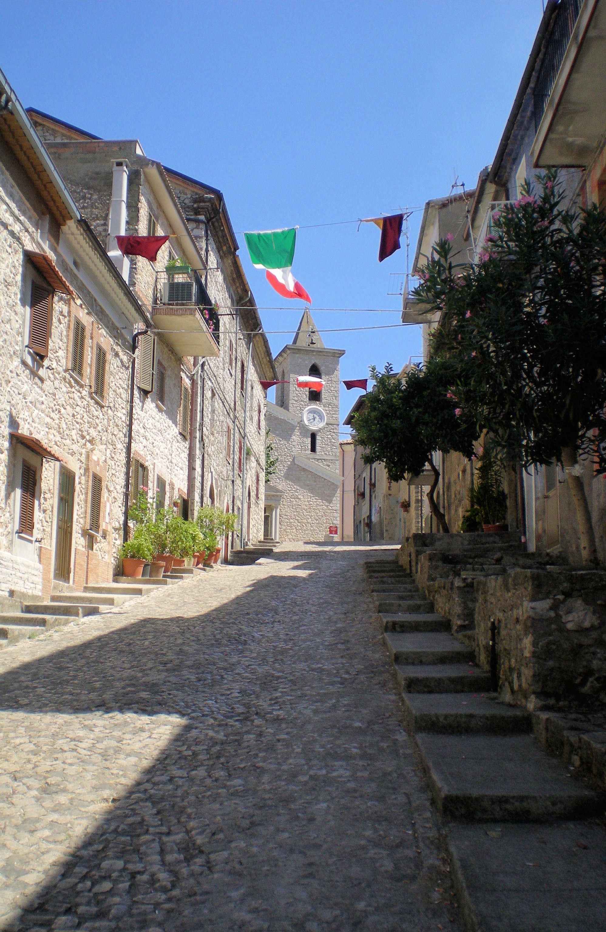 Bell tower